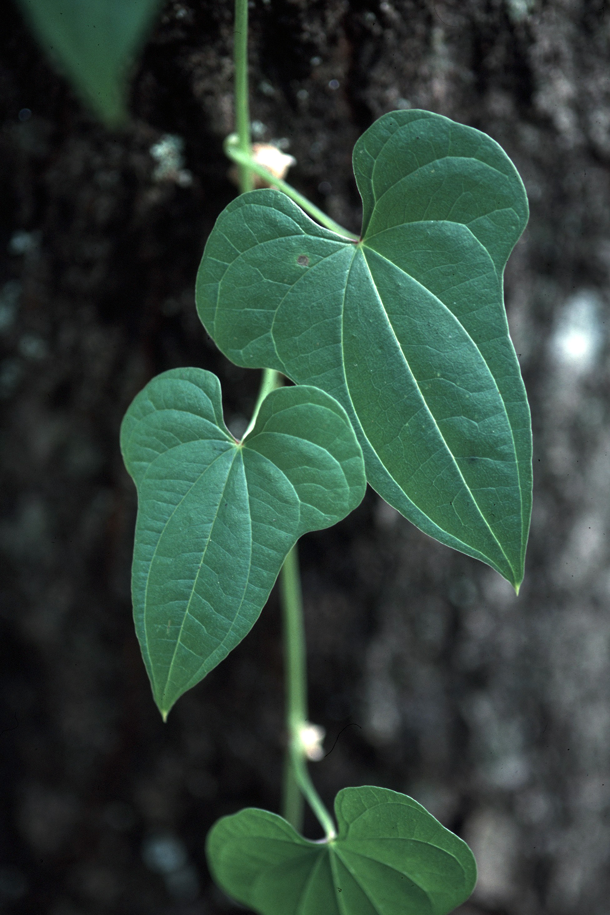 Dioscorea polystachya Turcz. - Chinese yam